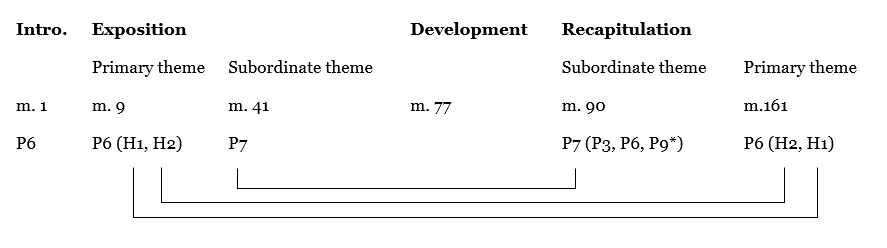 Reconceptualization of the sonata form in Gerhard's Quartet for strings n. 1